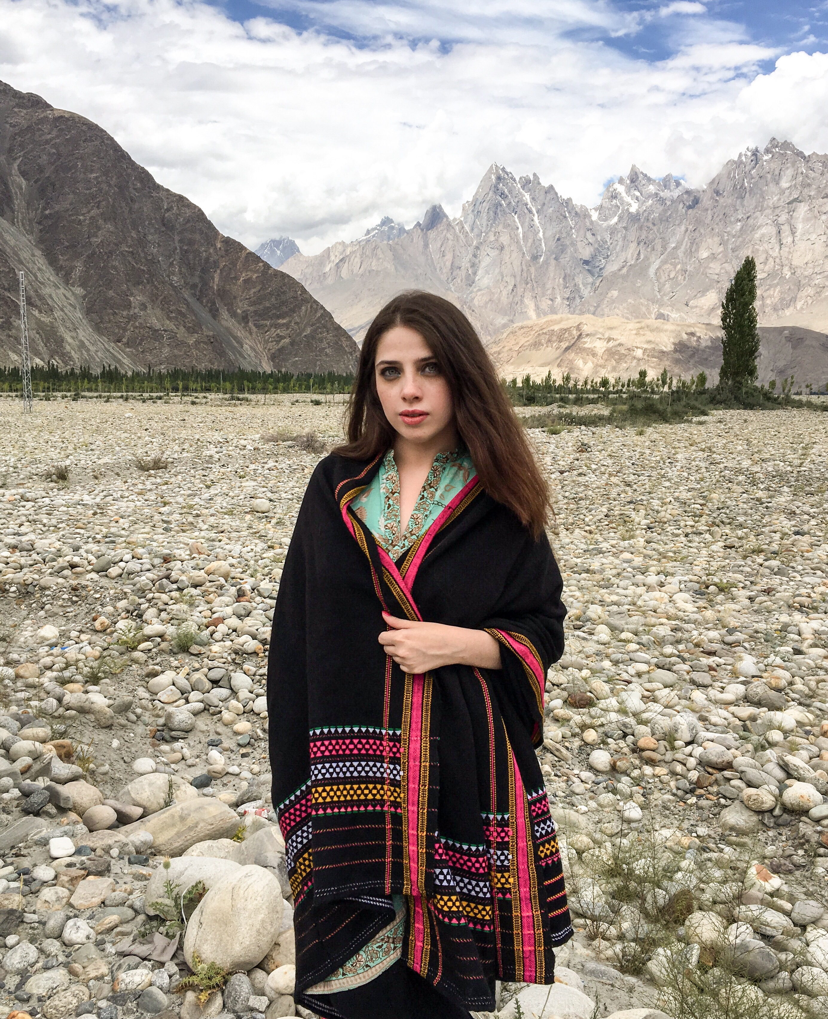 Maha Ali Kazmi performing in the music web series Acoustic Station.